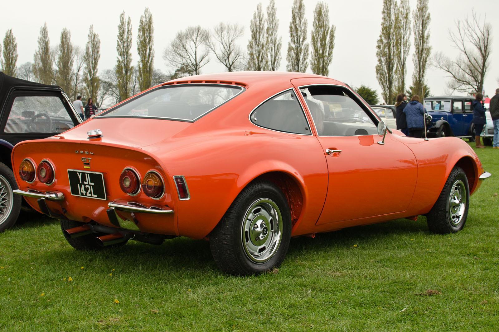 St Asaph Classic Car Show 20/04/2014